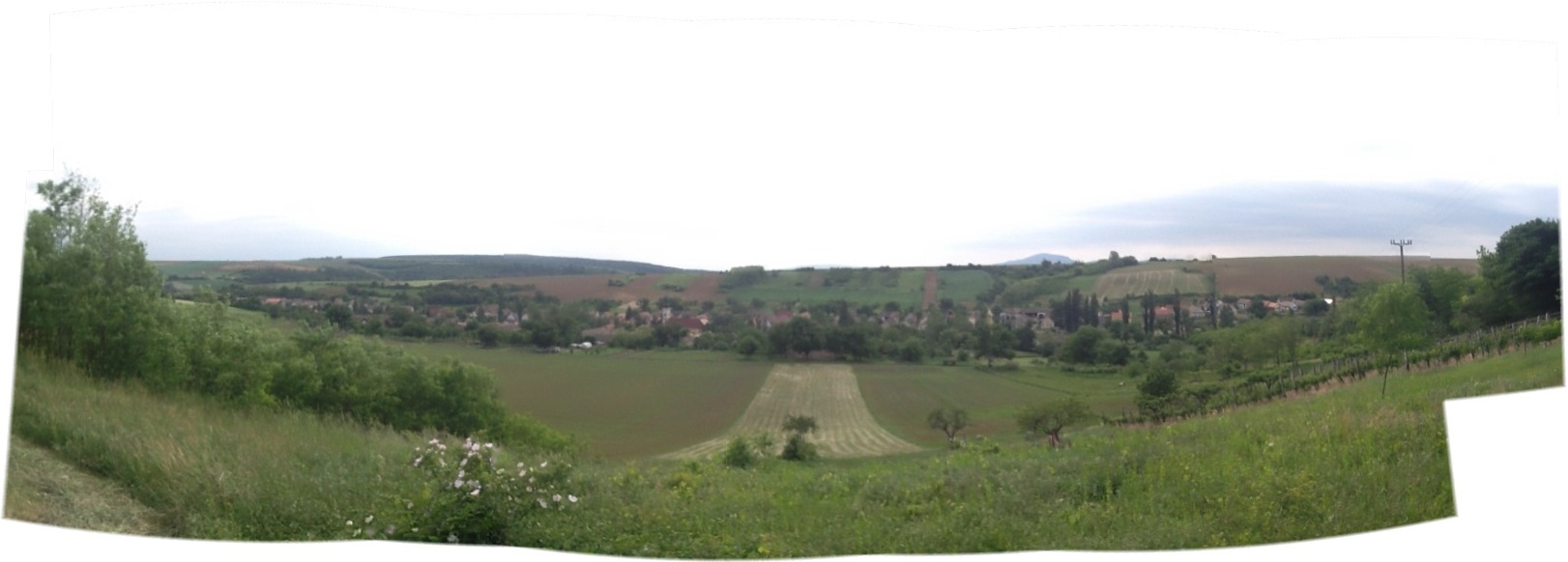 Panoramaphoto of Feked